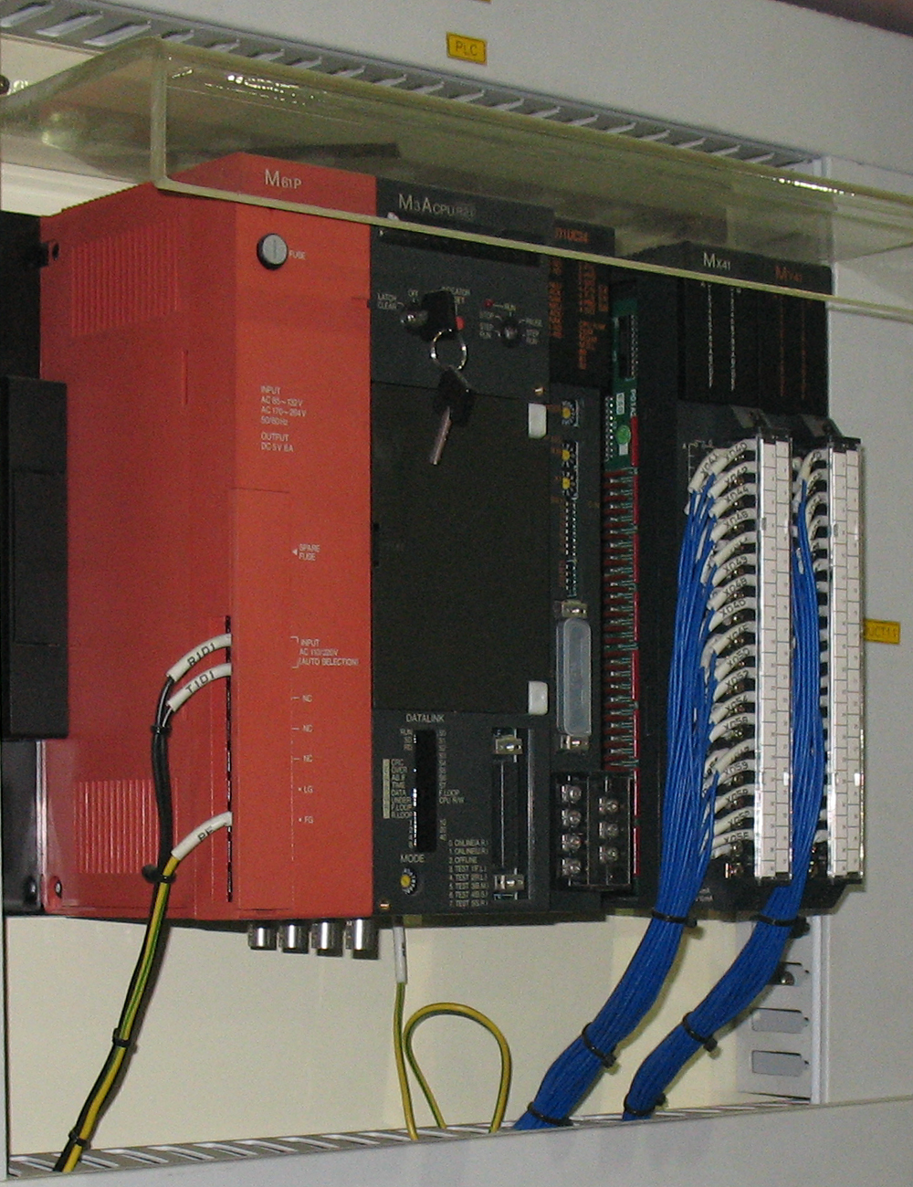 PLC by MITSIBISHI